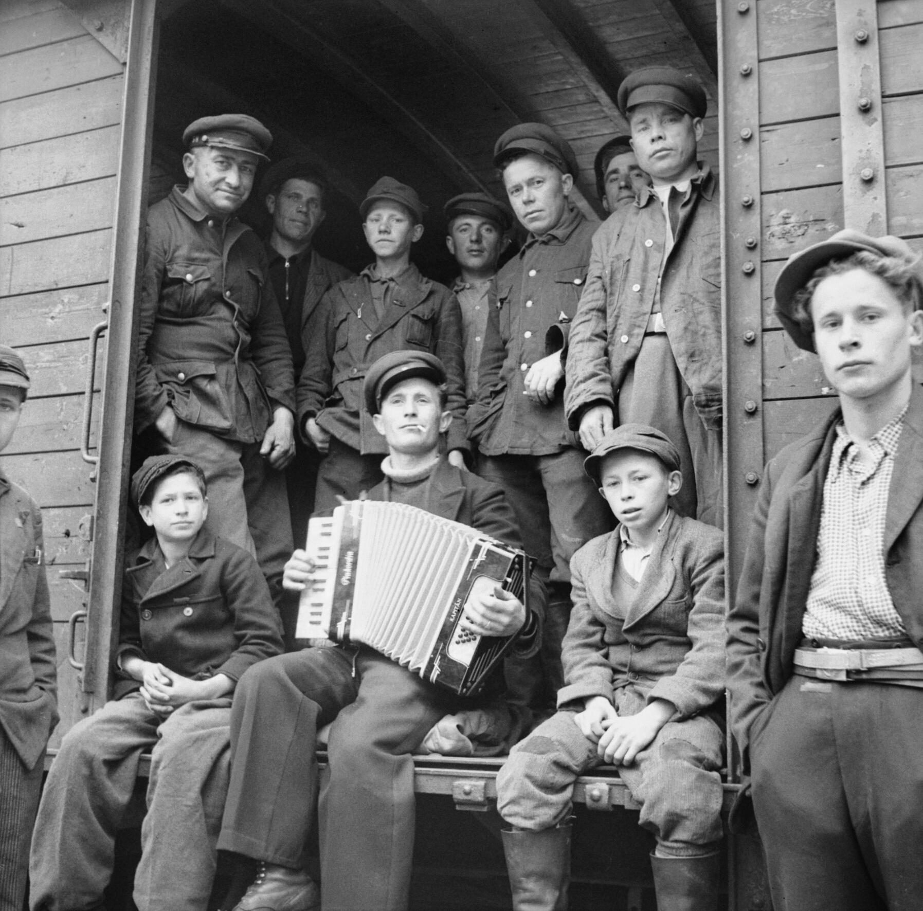 Russian displaced persons and former prisoners of war about to leave transit camps near Hamburg for the Russian zone of occupation from where they will be repatriated to the Soviet Union, 31 May 1945. Some of the first Russian displaced persons and former prisoners of war to leave transit camps near Hamburg for the Russian zone of occupation from where they will be repatriated to the Soviet Union. Trains ran direct from Hamburg to Crivitz.